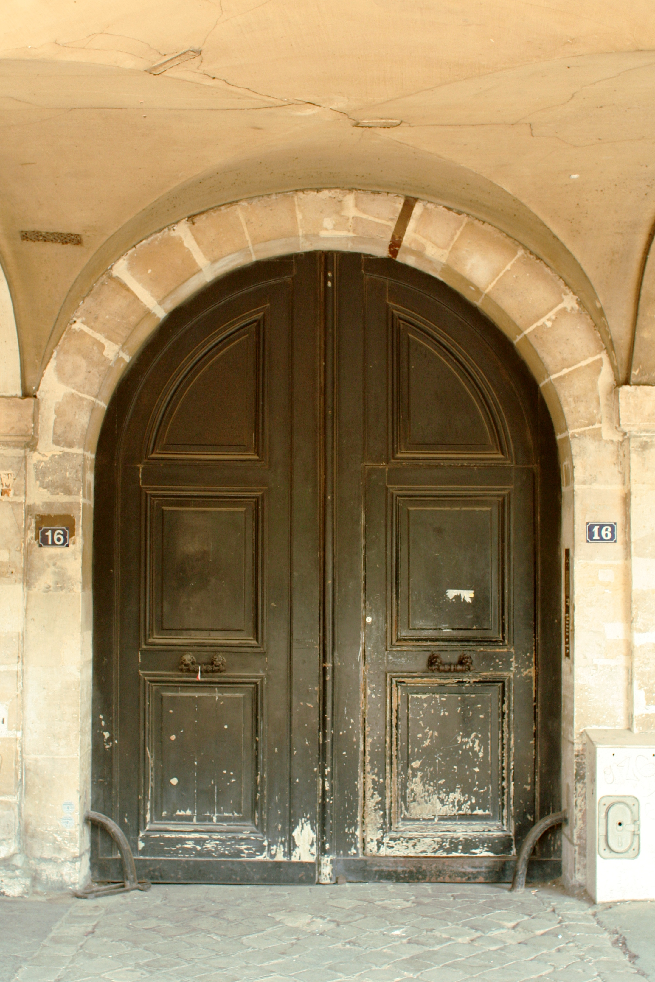 Door of 16 Place des Vosges, Paris.